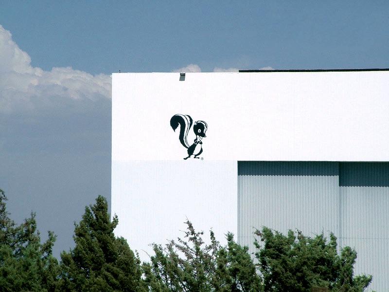 Picture taken by Bernardo Malfitano of showing a corner of the Skunk Works hangar in Palmdale, CA. Skunk Works is the Lockheed Advanced Development Projects Unit, created for the development of the F-80 (the first successful American jet fighter) and also responsible for the creation of such amazing and historic aircraft as the U-2, Blackbird, F-104, as well as many modern stealth aircraft such as the F-117, F-22, and Joint Strike Fighter.